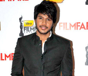 Sundeep Kishan at 60th South Filmfare Awards 2013